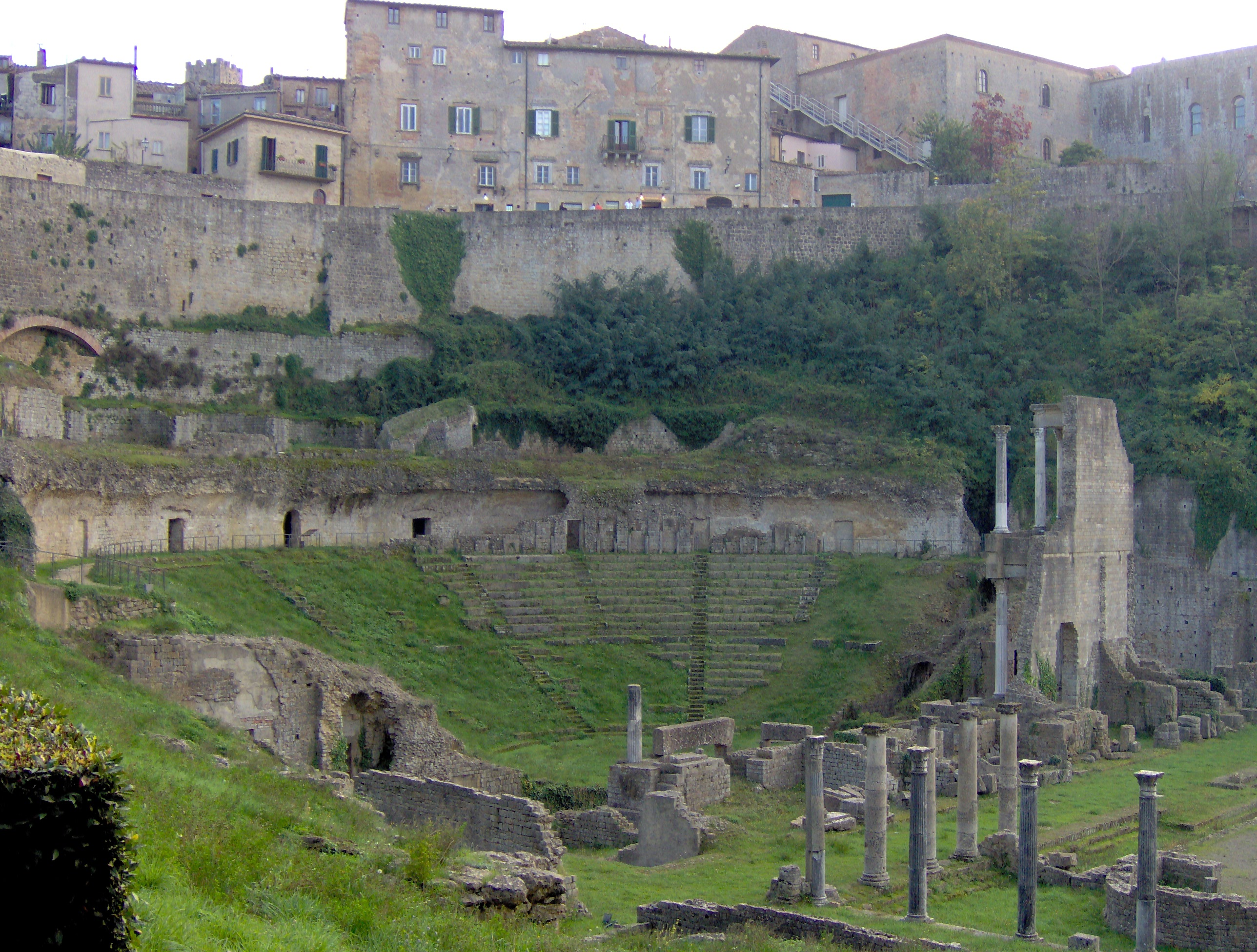 The Ancient Roman theater of Volterra, Italy.